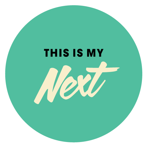 This Is My Next